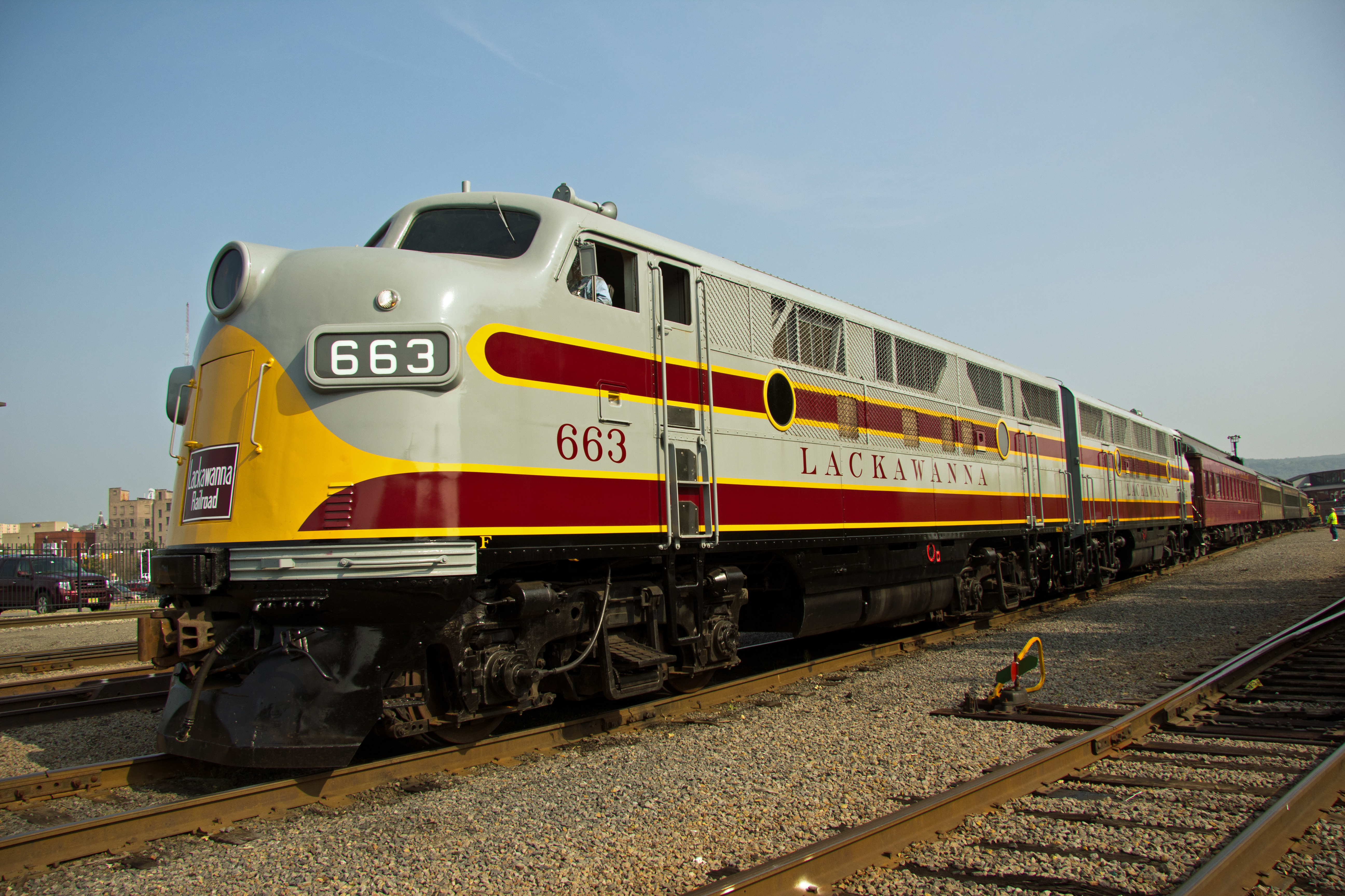 DL&W # 663, an 1948 EMD F3A along with its mate #664 pose for pictures at Railfest 2011 at Steamtown in Scranton, PA. On Saturday the engines pulled an excursion train to Moscow. On Sunday, a single engine pulled short excursions in and around Steamtown.